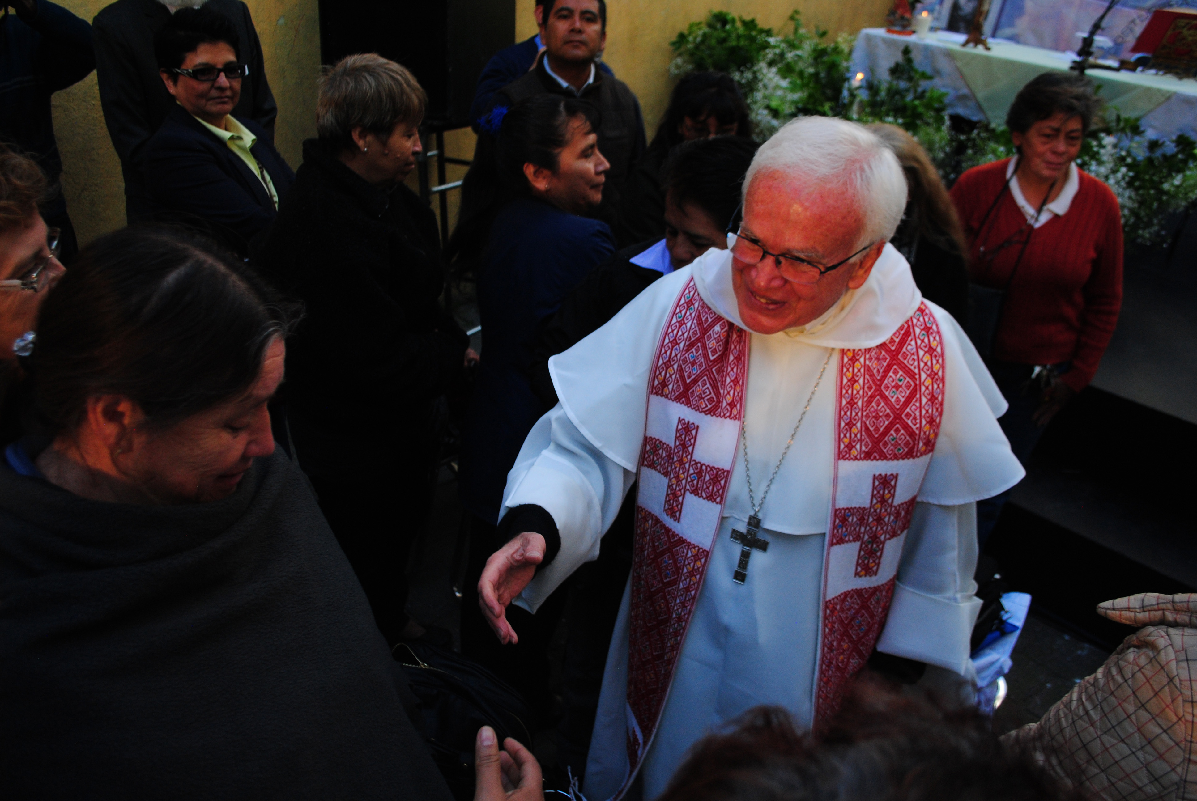 Mexican Bishop Raúl Vera making Pax salutation. Commemorative event of the Association of Sewers and Seamstresses September 19, held on September 19, 2014, in Mexico City.